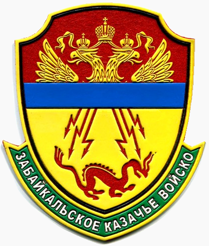 Забайкальское казачье войско (шеврон)